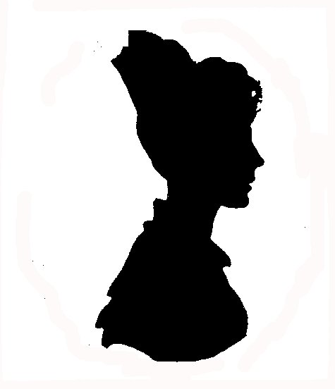 Elizabeth Pigot who was a mate of Byrons from Fantasy, forgery, and the Byron legend By James Soderholm